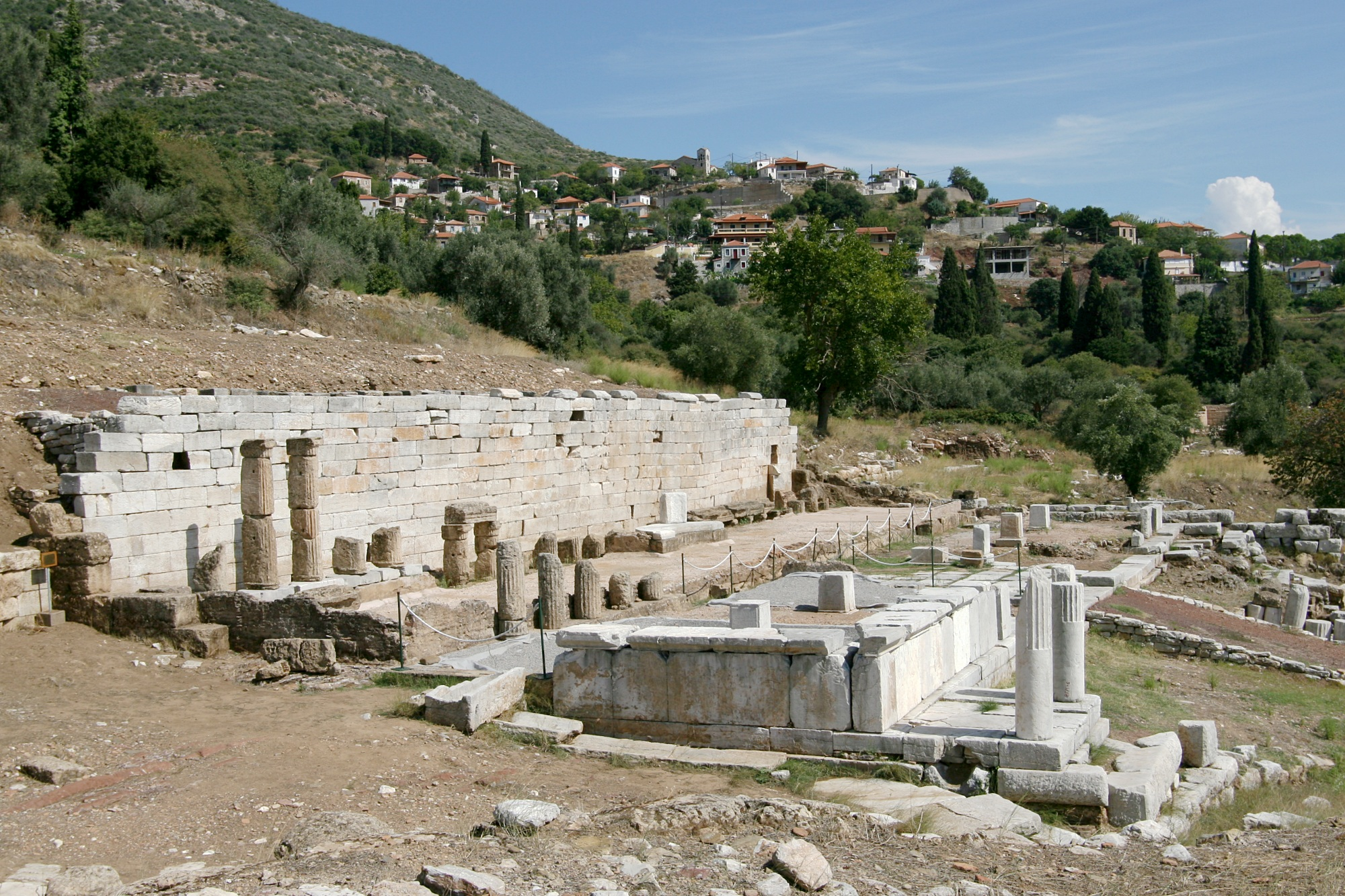 Messene, fountain of Arsinoe, in the background the village of Mavromati